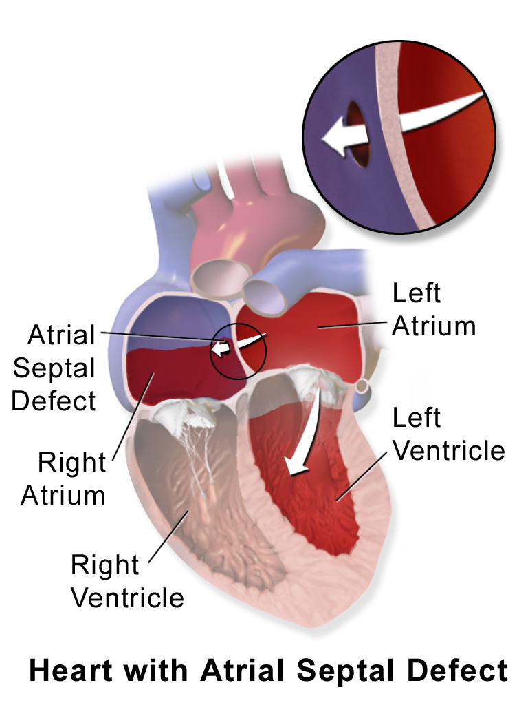 Atrial Septal Defect. See a full animation of this medical topic.